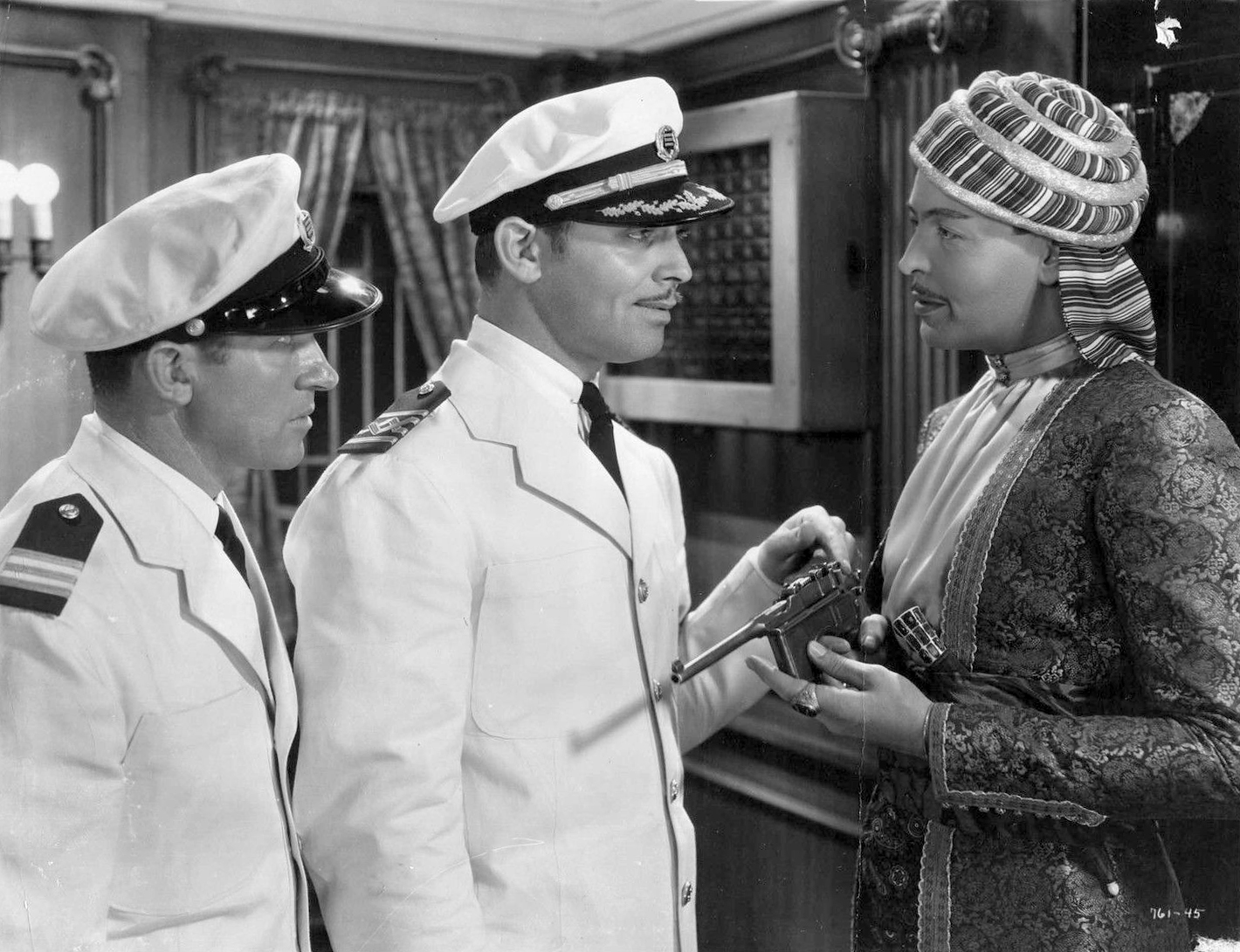 China Seas 1935 movie publicity still. Center: Clark Gable.